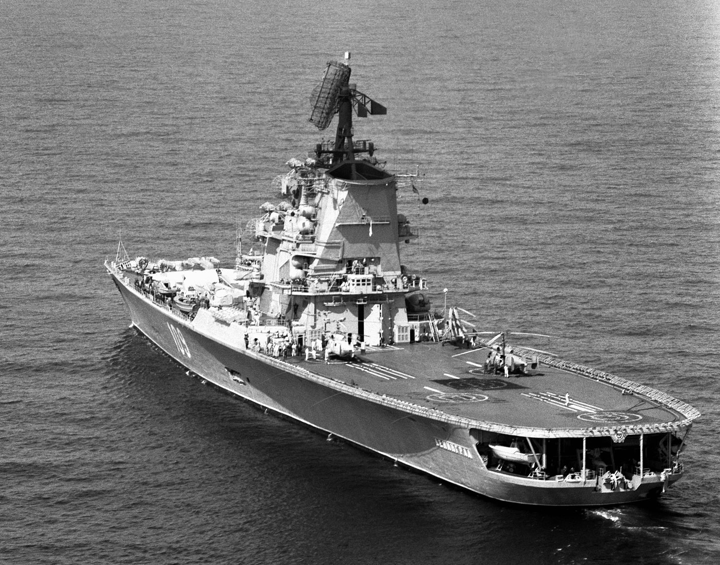 United States Department of Defense photograph of Leningrad, port quarter view, dated April 1, 1990.